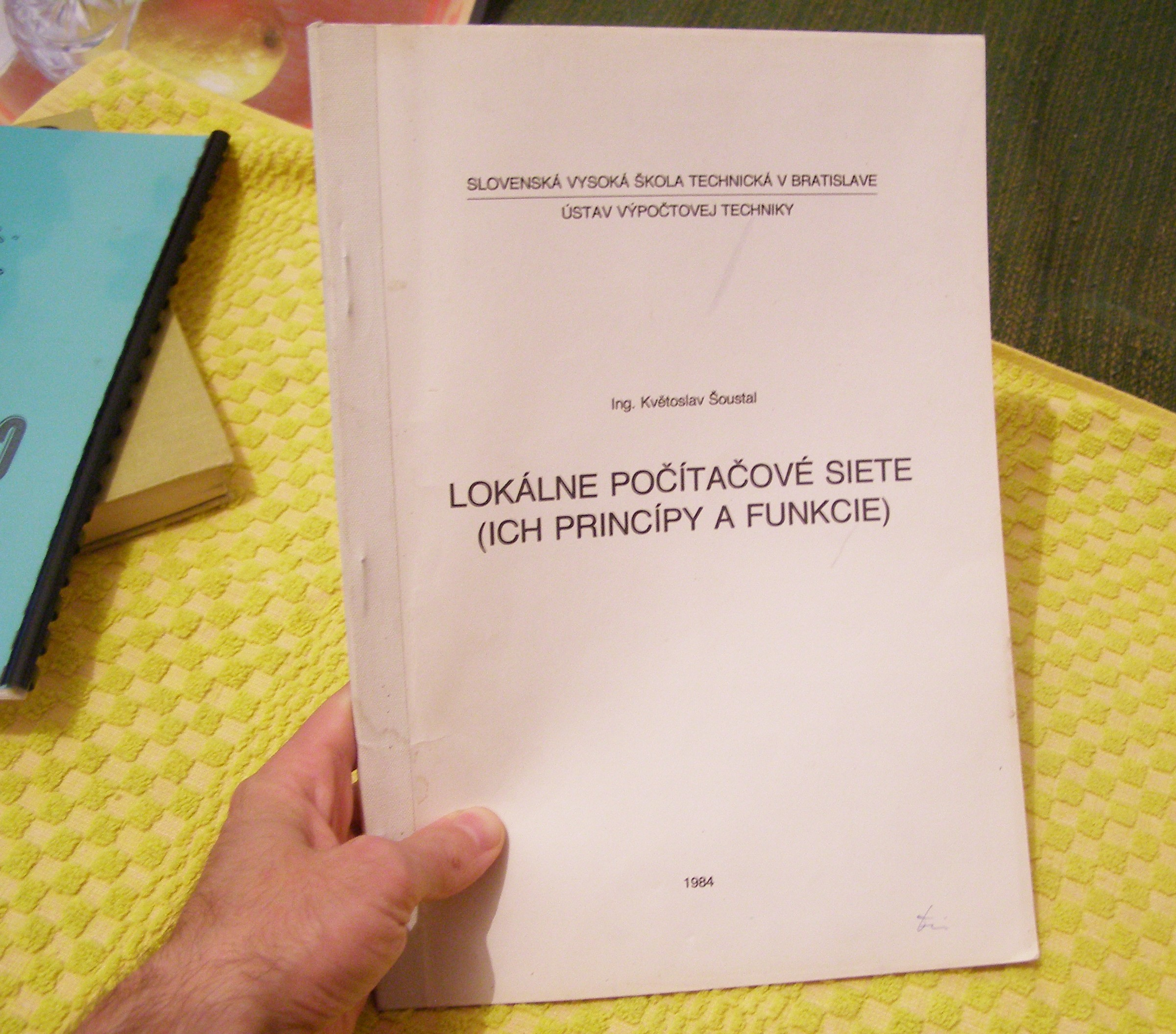 Book of Czechoslovak computer science author Květoslav Šoustal about computer networks